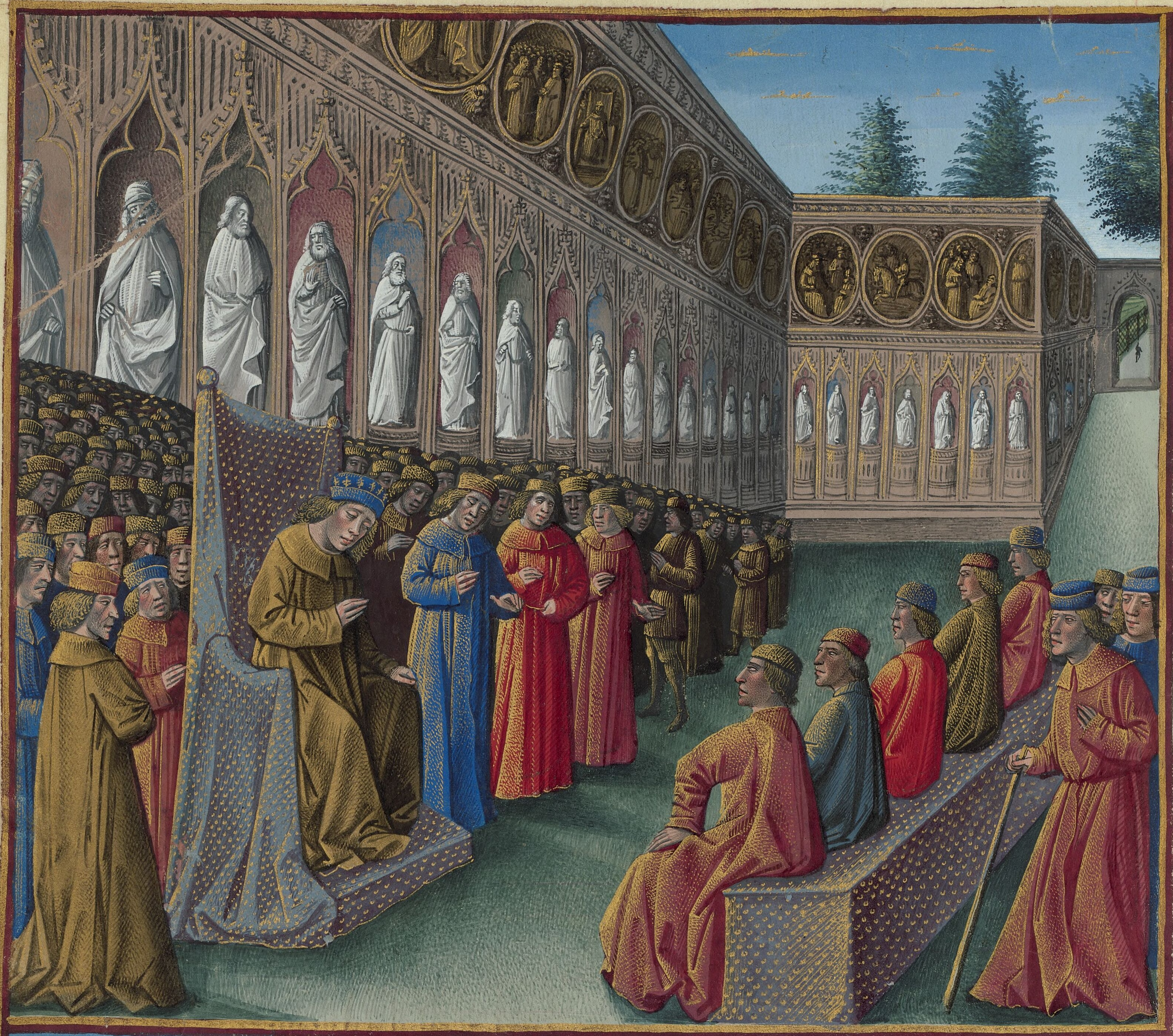 Amalric_I_holding_a_theological_discussion_with_the_clerics FROM THE BOOK: Les Passages d'outremer faits par les Français contre les Turcs depuis Charlemagne jusqu'en 1462